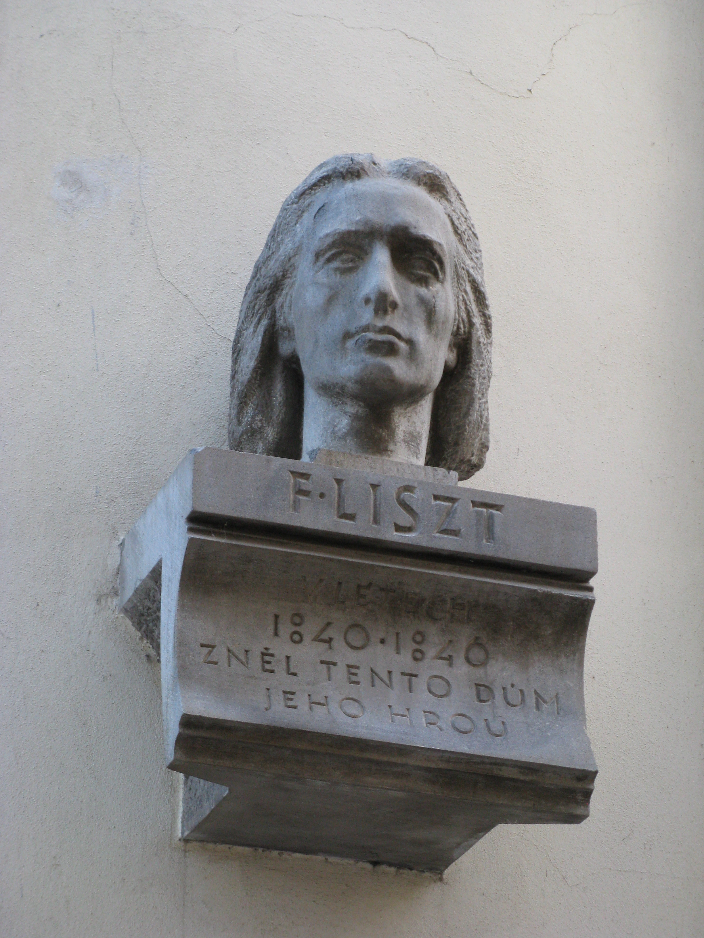 Bust of Franz Liszt in Prague.